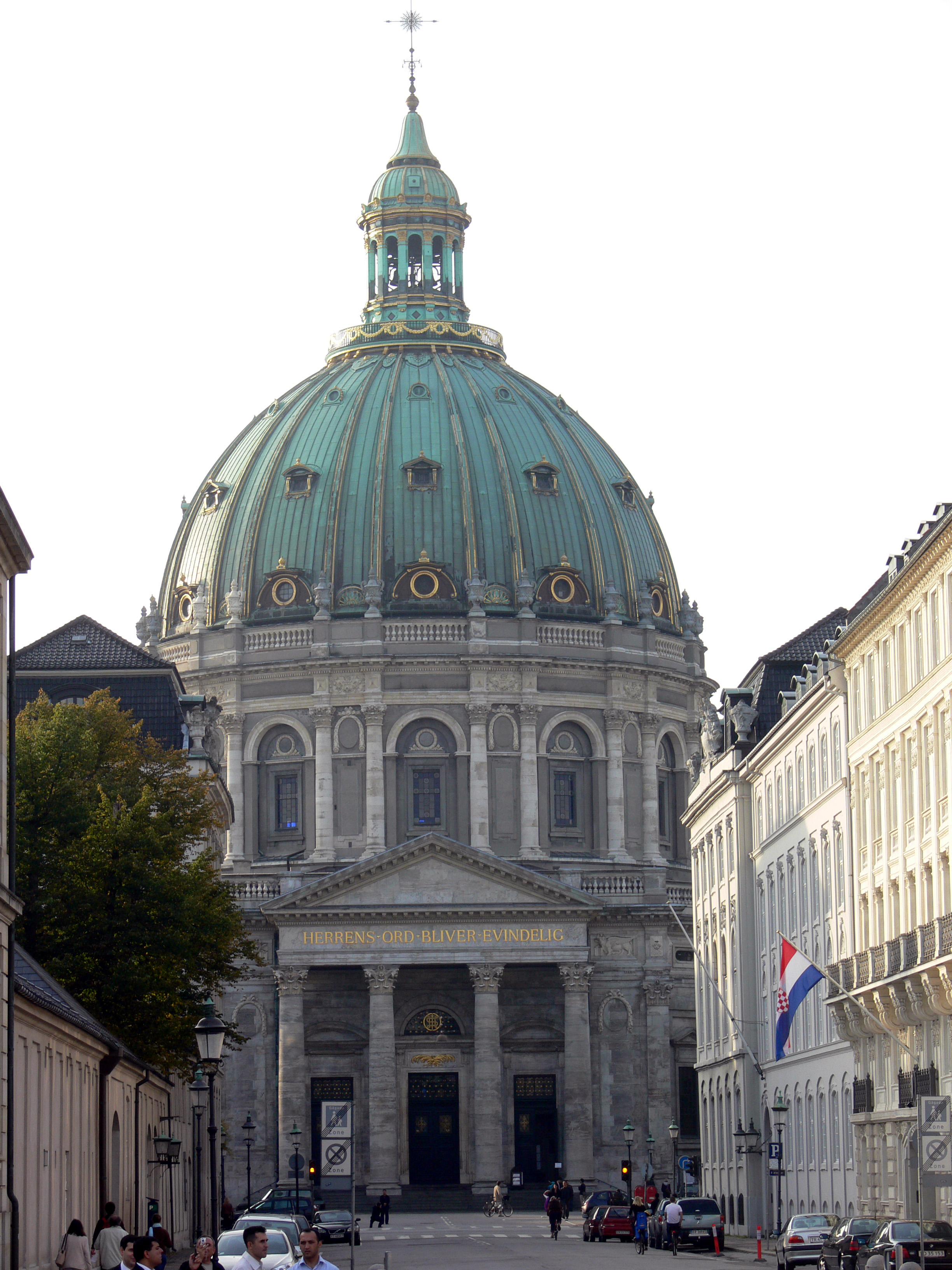 Marmorkirche